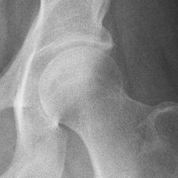 Projectional radiography of a normal hip joint.